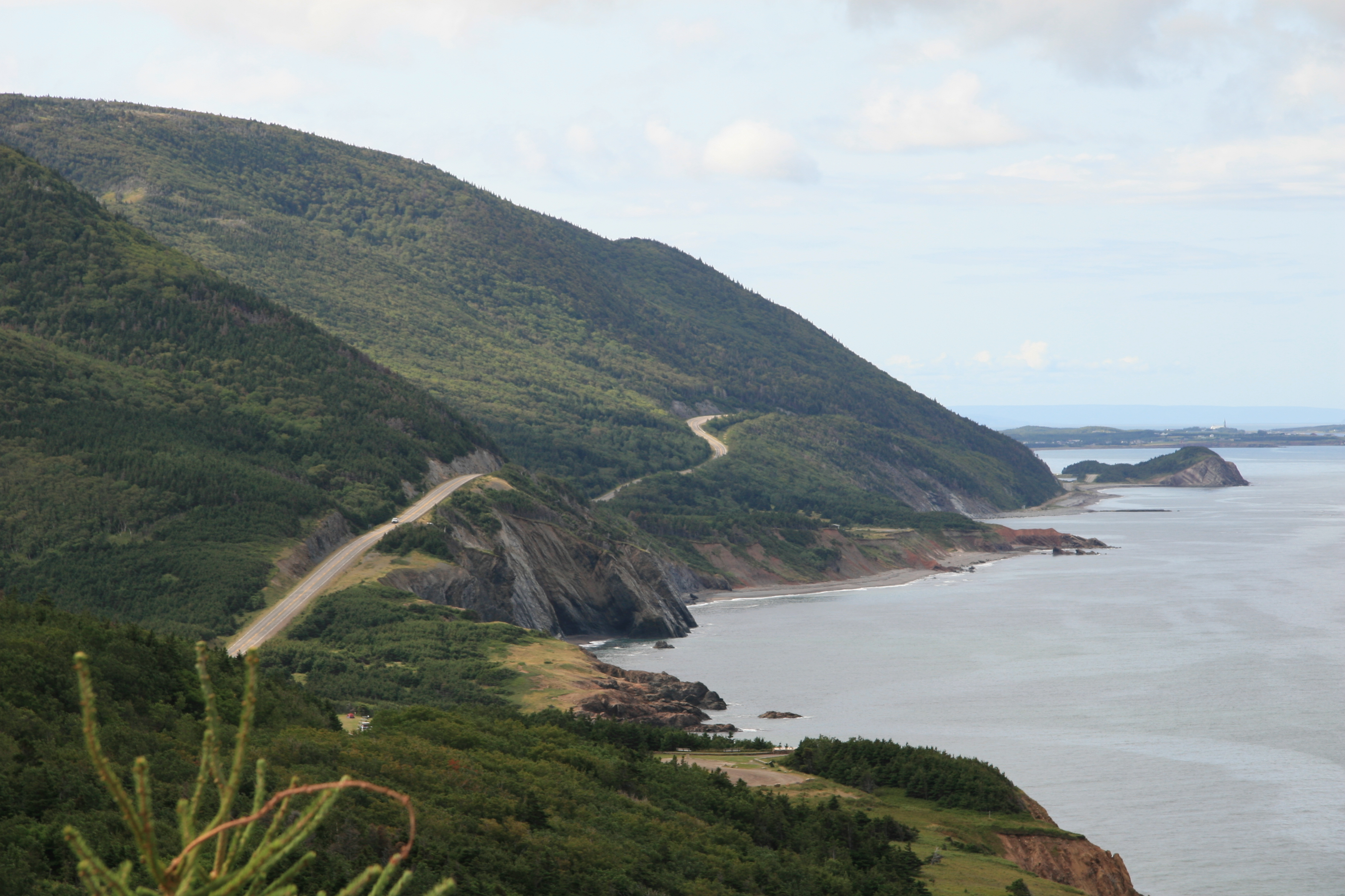 This is an image of the Cape Breton Highlands National Park. It was taken on near the South West corner of the park. The rocky spit on the right hand side is presqu'ile and part of Jerome Mountain can be seen on the left. The location from which the picture was taken is close to 46.70 degrees north.